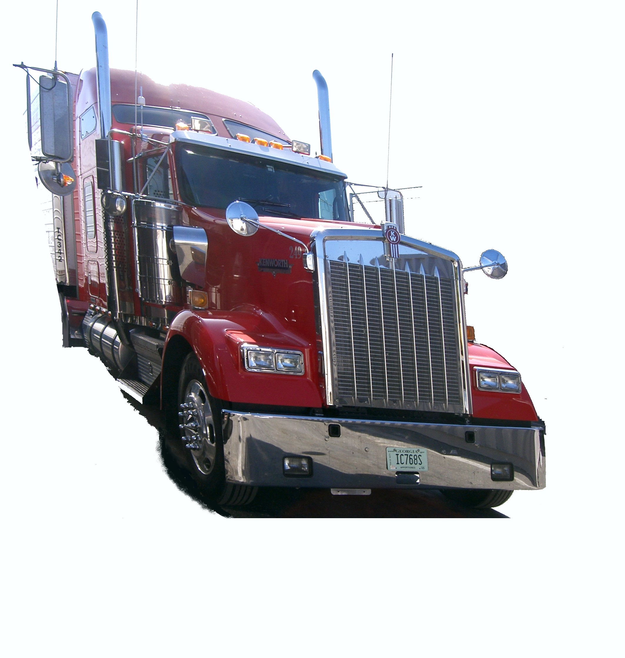 Us truck California 2007